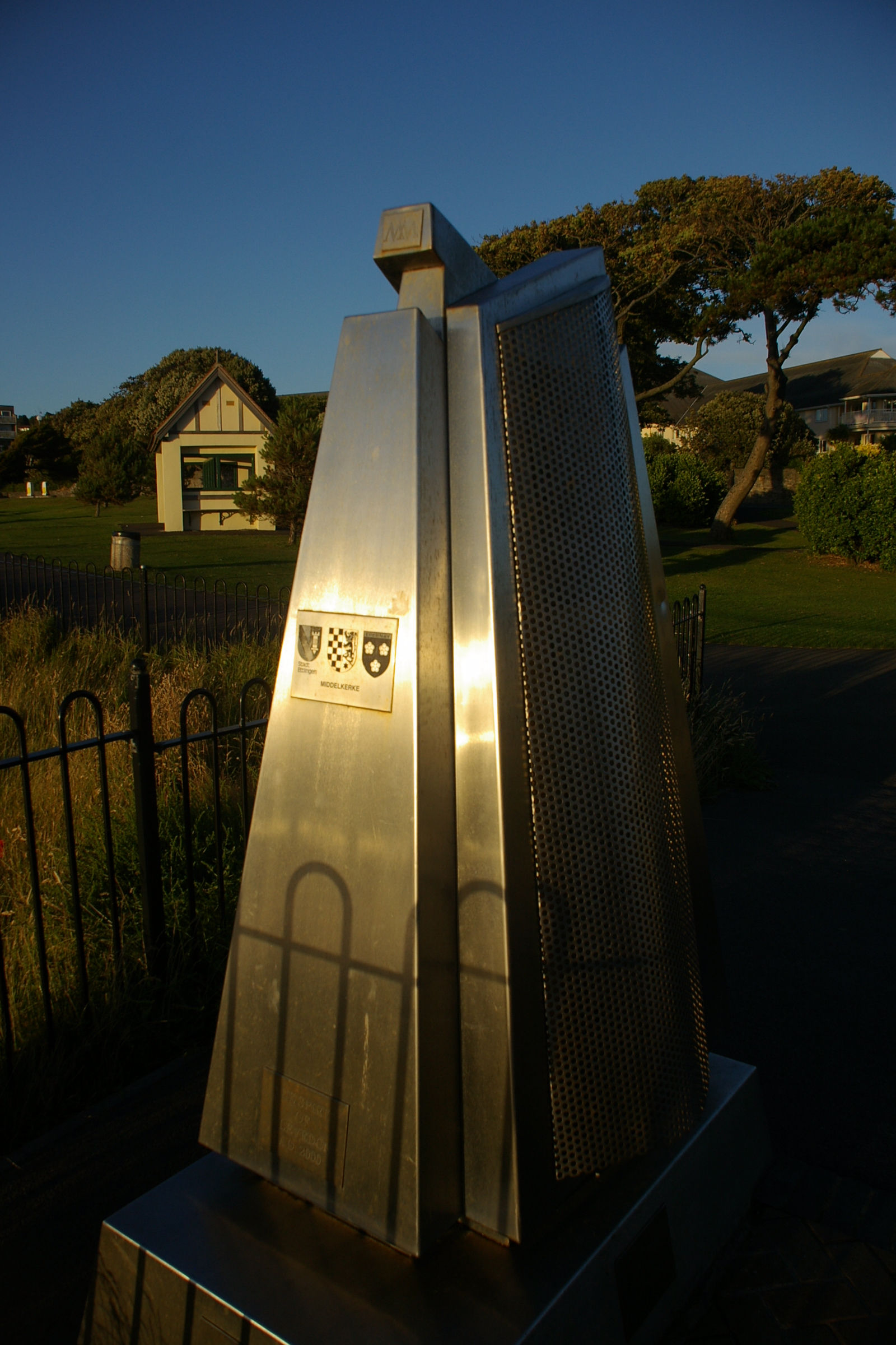 The Clevedon Obelisk on the sea front, erected for the millennium celebrations.